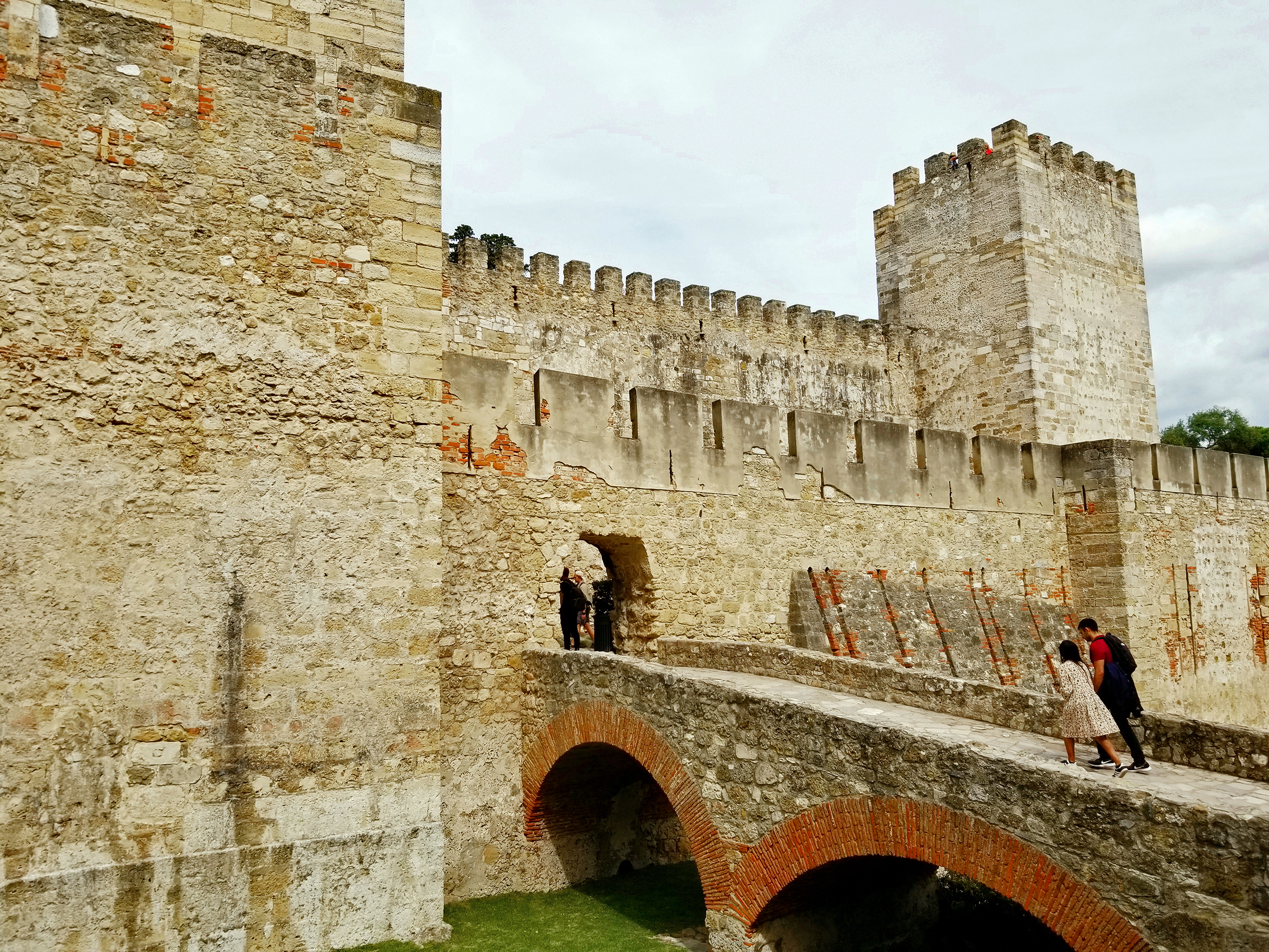 Bridge over the current dry moat, São Jorge Castle, lisbon